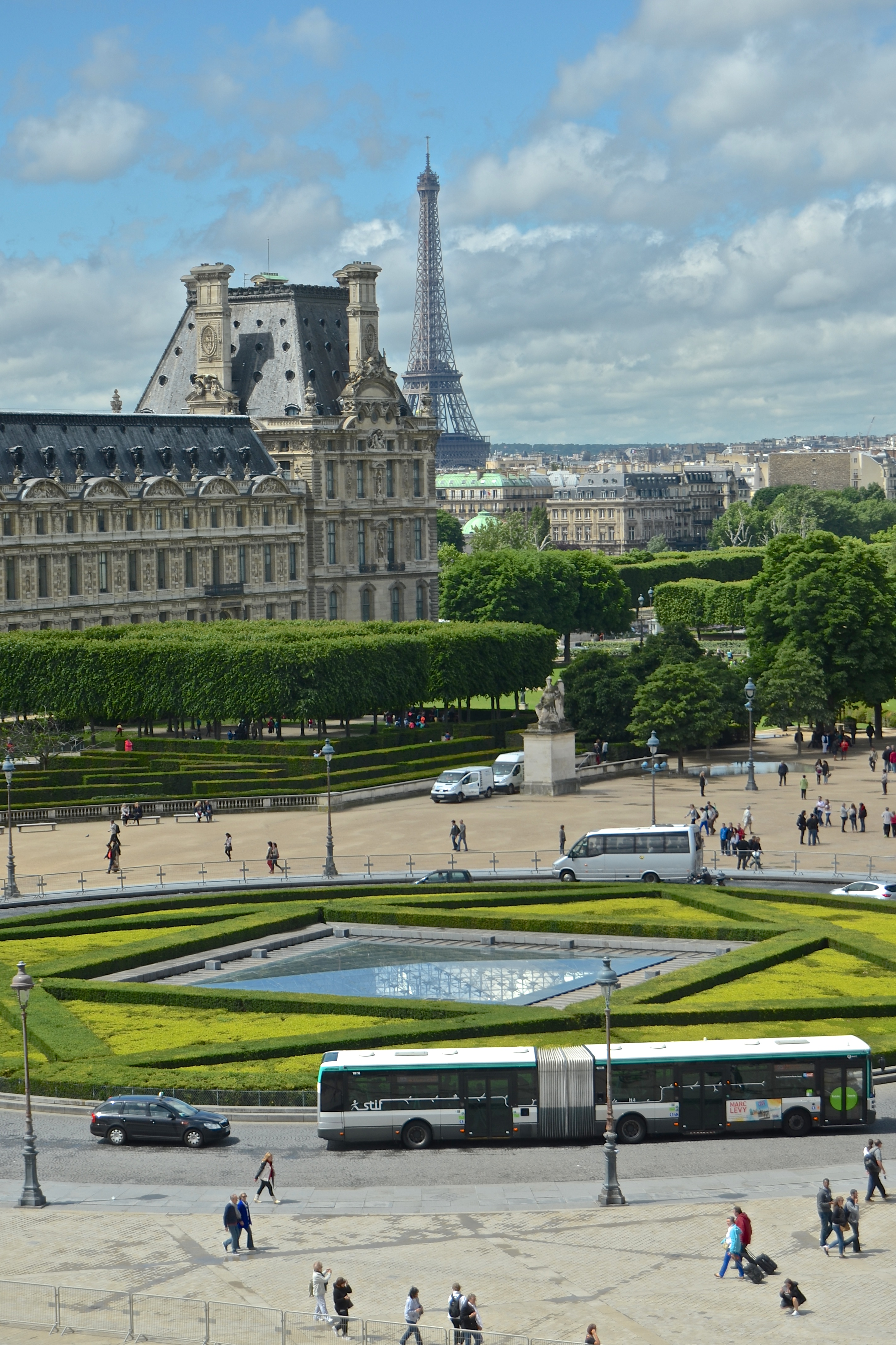 View from a window of the Palais du Louvre towards Place du Carrousel, Ier arrondissement, Paris, France.